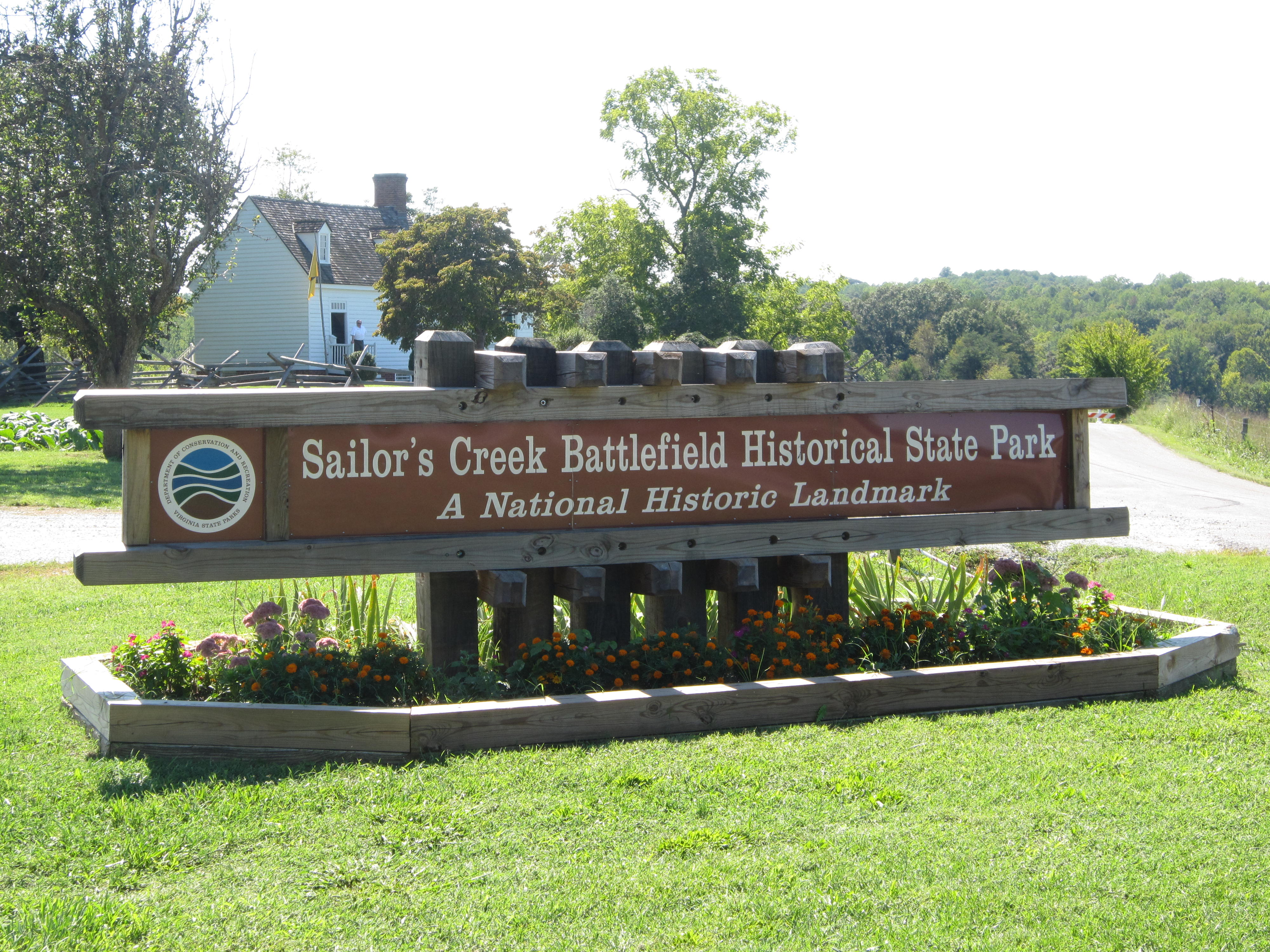 Hillsman Farm House Museum